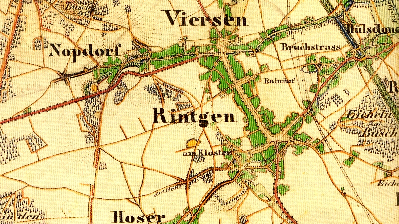 Topographic Map 1:25000 by Royal Prussian Land Survey, sheet 4704 (Viersen), snippet displaying the villages Viersen and Rintgen.